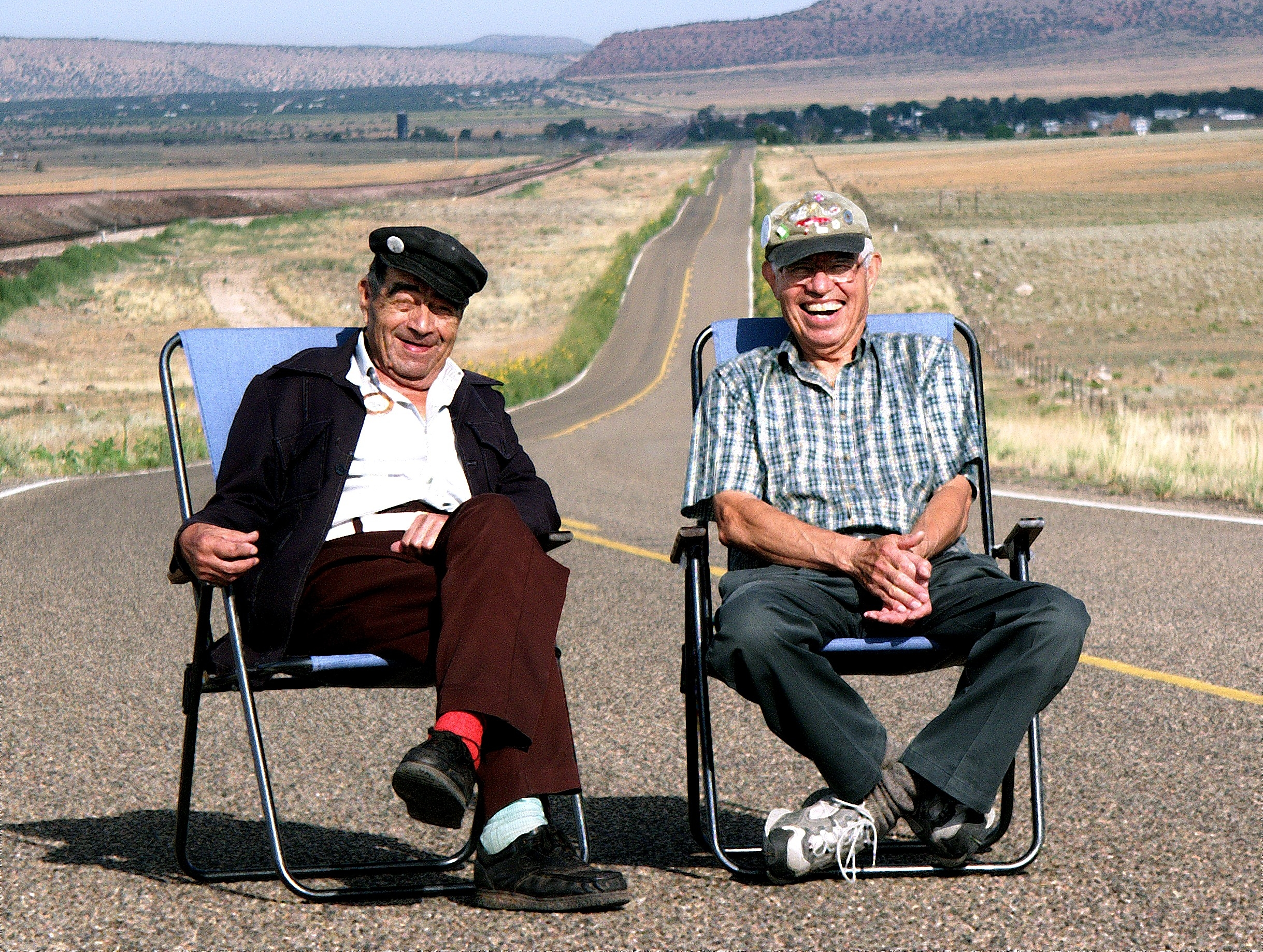 Scope and content: The original finding aid described this photograph as: Original Caption: Sitting in lawn chairs along a stretch of Arizona's Historic Route 66 All American Road with miles of blue skies and high desert scrub brush as the backdrop, are brothers Juan and Angel Delgadillo, who, with a few other Route 66 believers, are responsible for the rebirth of Route 66. Angel, now 81 years old (as of 2008 or so), proved that one man can change the world. After Route 66 was bypassed by Interstate 40, he watched his community struggle to survive, all the while believing that the way to bring back the economy of his town and others along the Route was to build it on the heritage of Route 66 itself. Thirty years later Juan, who always wore mismatched socks, and Angel sit casually beside the road with smiles from ear to ear and a twinkle in their eyes. Juan and Angel built successful businesses around the Route 66 theme, and are proud that the world believed in their vision. Location: Location: Seligman, Arizona (35.320° N 112.848° W) Status: Public domain. Photo by Bill Leverton